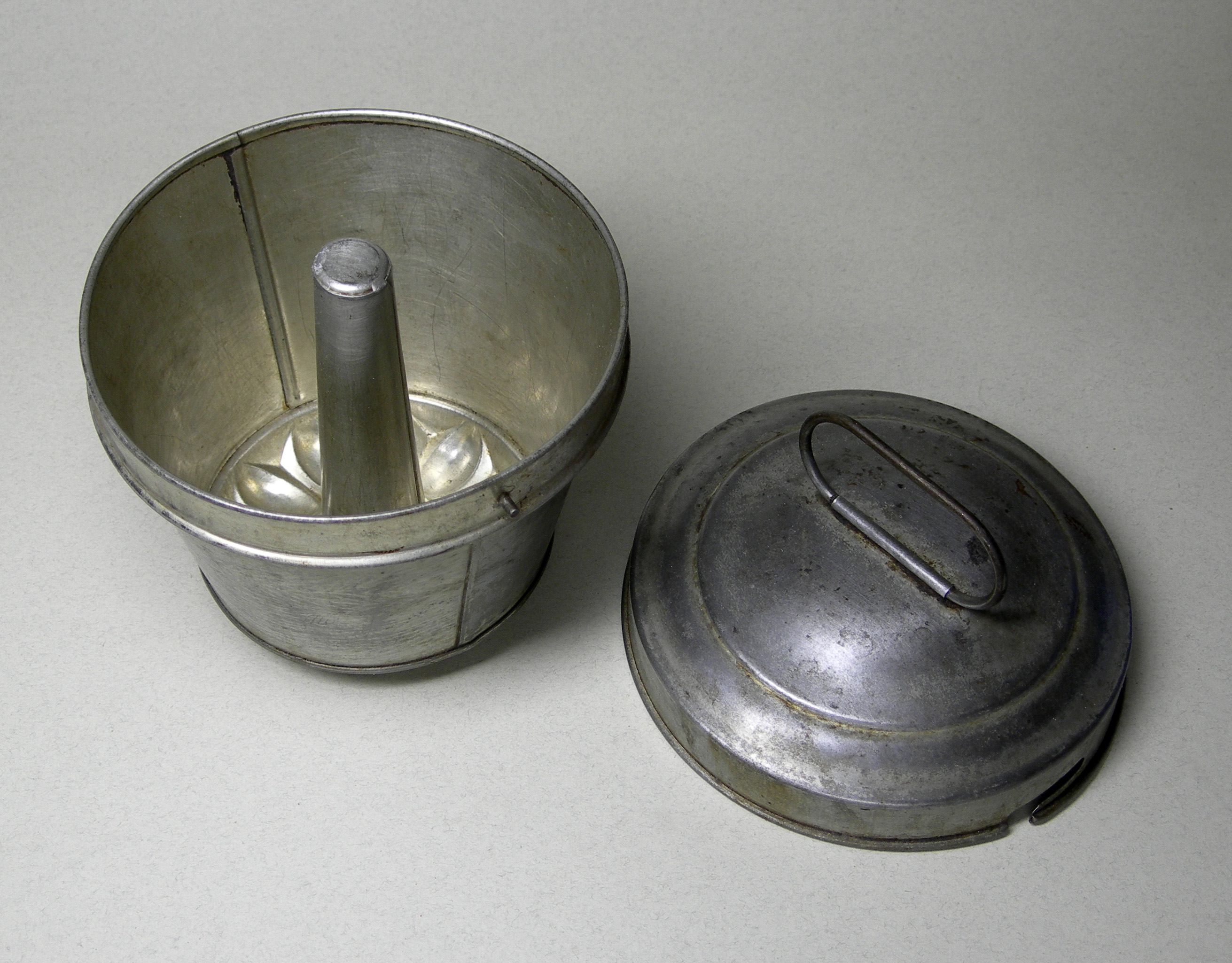 Steamed pudding mold